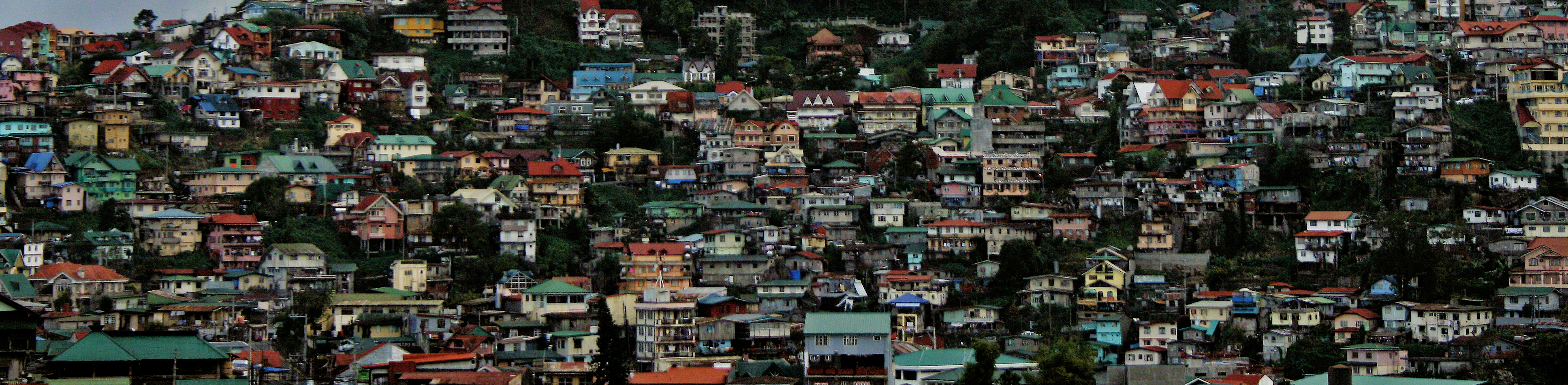 Baguio houses